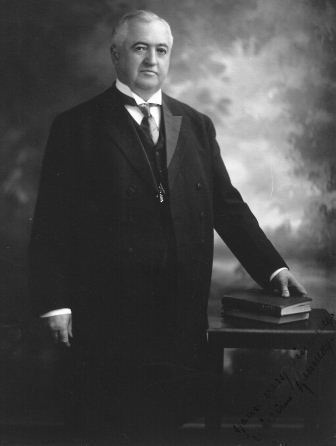 Senator William Kennedy of Connecticut